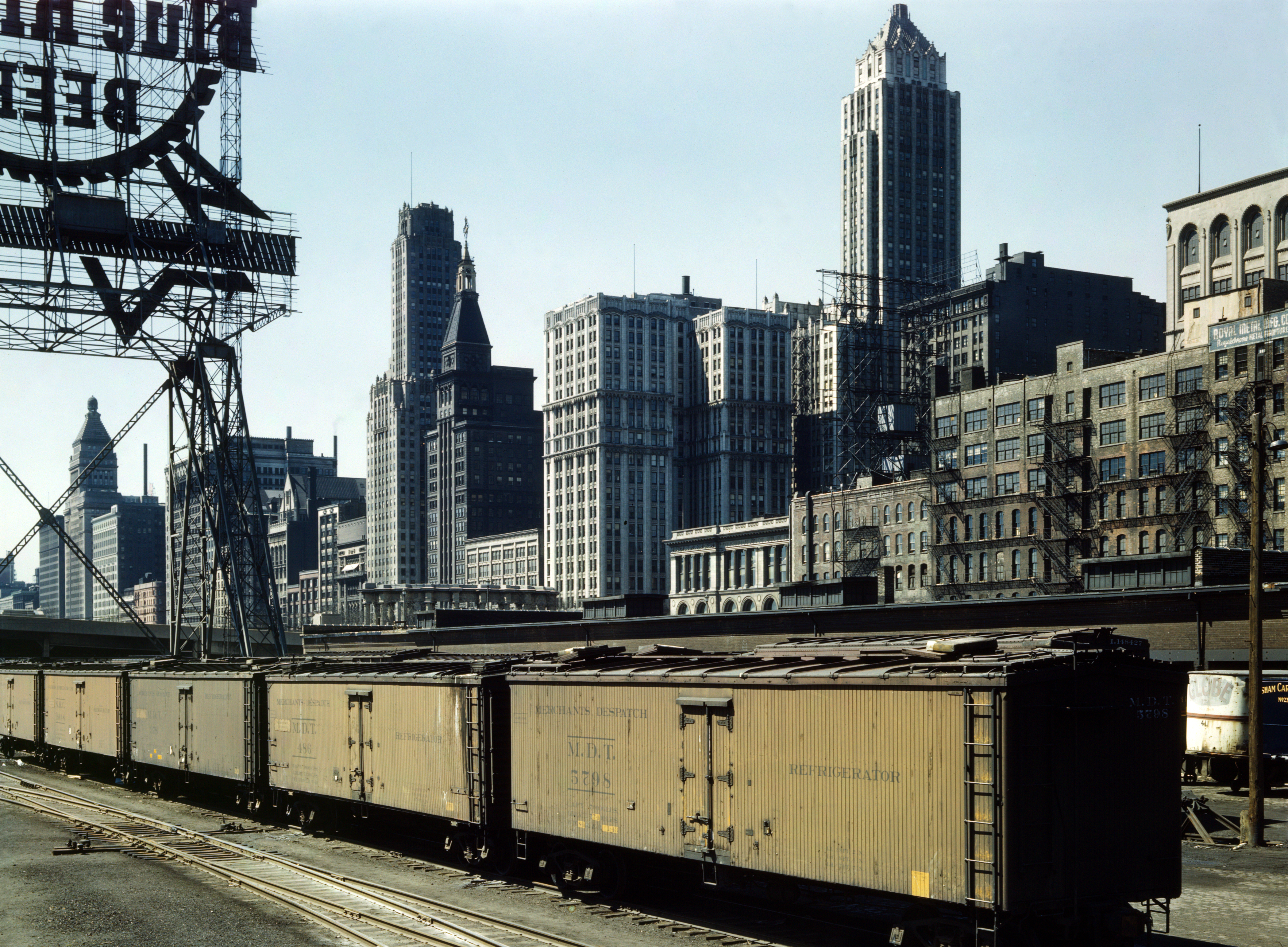 Delano, Jack,, 1914-, photographer. General view of part of the South Water street Illinois Central Railroad freight terminal, Chicago, Ill. 1943 April 1 transparency : color.